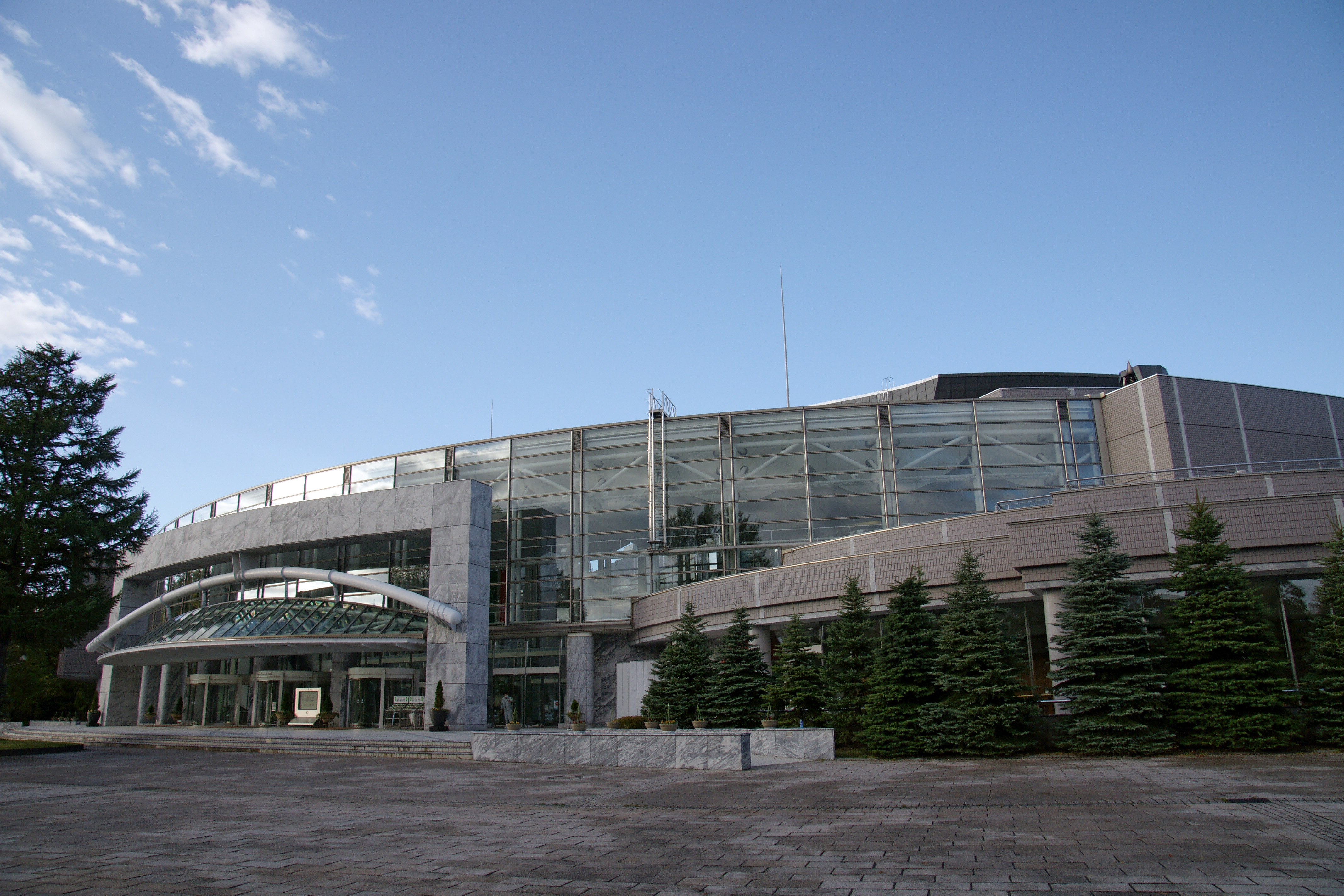 Sapporo Concert Hall Kitara, Sapporo, Hokkaido prefecture, Japan